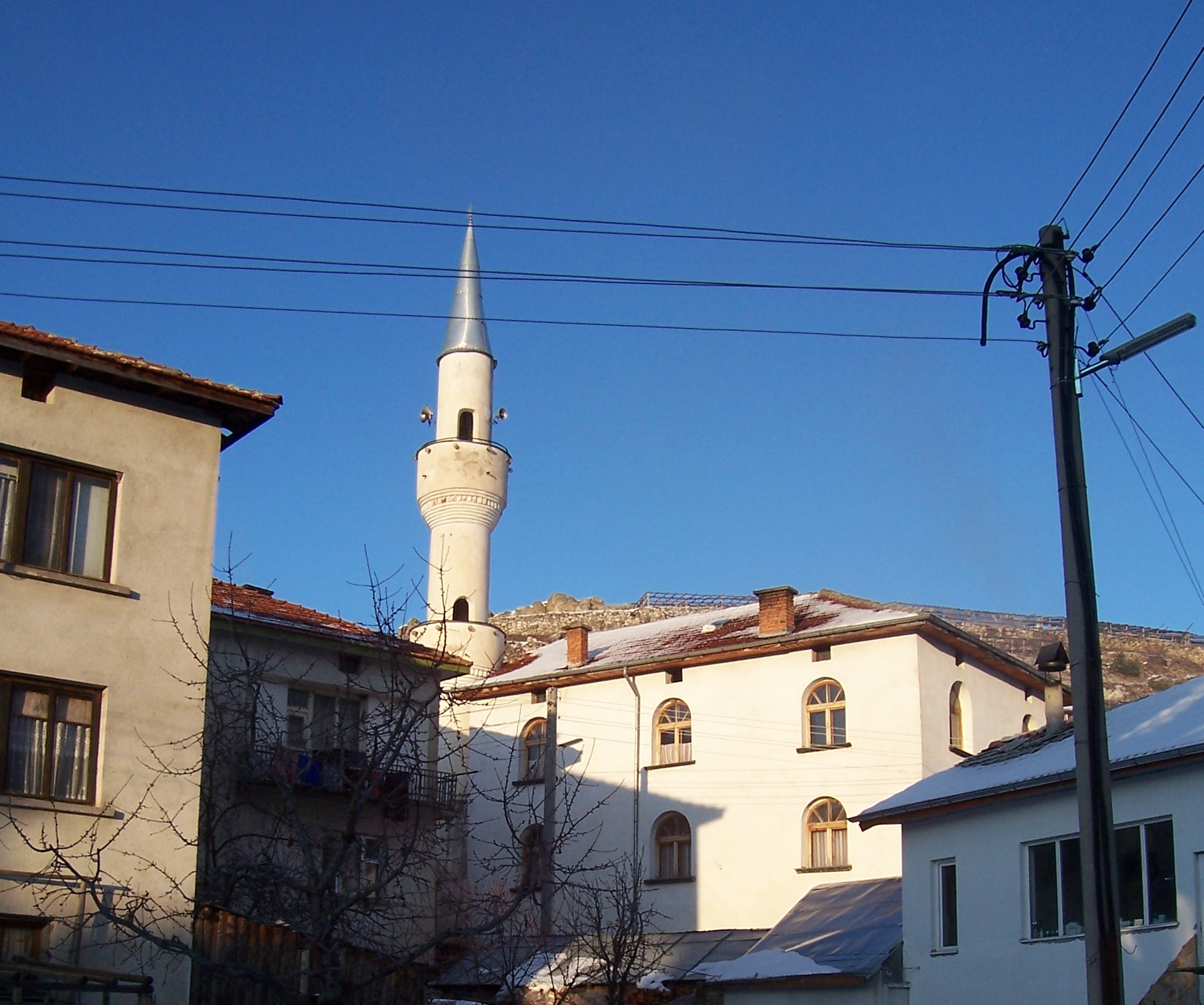 The mosque in the village of Brashten.